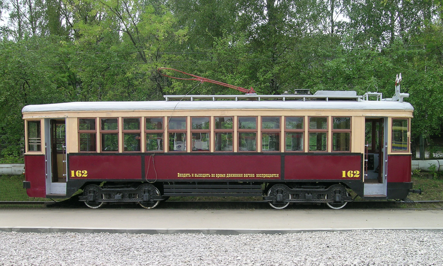 Museum vintage KM tram in Nizhniy Novgorod, Russia.